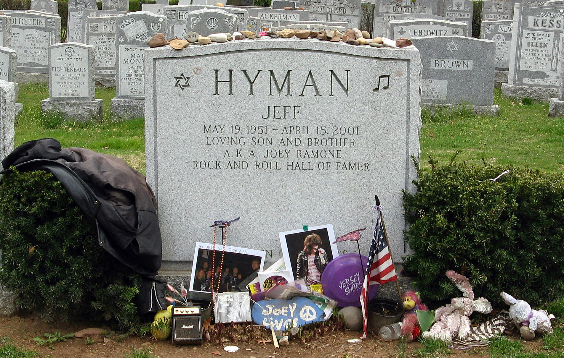 Joey Ramone was born Jeffry Hyman and was the lead singer of the four-member punk-rock band the Ramones. The band started in Queens, New York, in 1974, when, as he said, "The only thing that you heard on the radio was disco." By 1976, the band became a major force in the evolution of rock-n-roll; they have been lauded as the inventors of punk rock and are important influences in musical and pop culture. (Imdb) Joey was 6'6" and obsessive-compulsive. He wrote many songs and was a political liberal. He died in New York City, from cancer, and is buried in - of all places - Hillside Cemetery in Lyndhurst, New Jersey, an old home town of mine. "I Wanna be Sedated" too..........................Thanks, Joey!